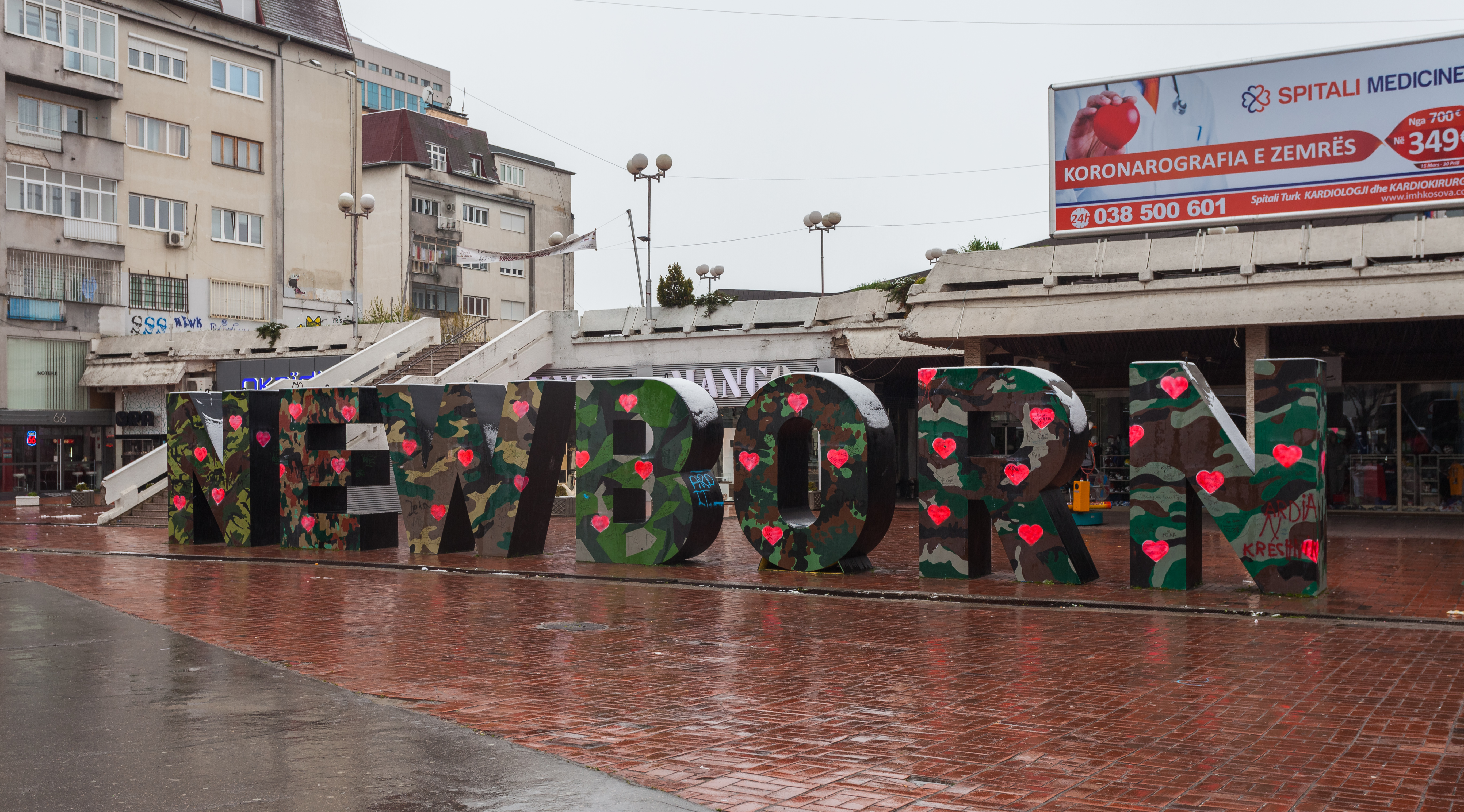 Newborn monument, Pristina, Kosovo